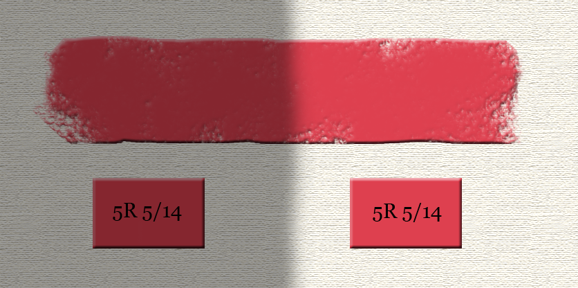 Digital illustration of a stripe of red paint passing between shadow and light